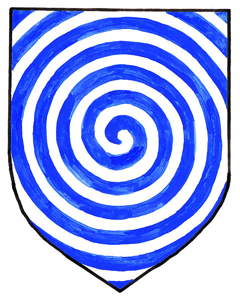 Coat of arms of Gorges (heraldic whirlpool)